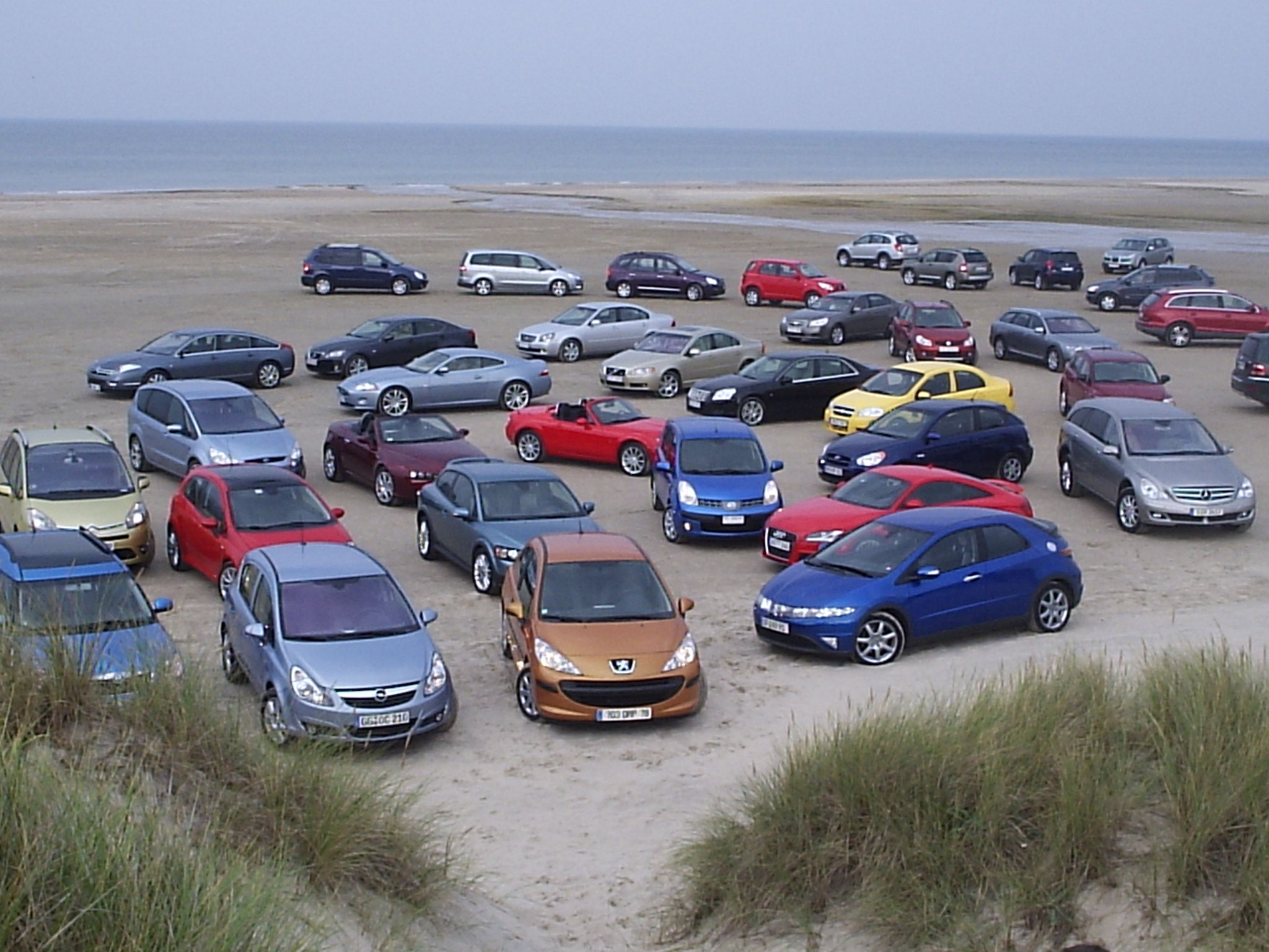 Car of the Year in Denmark 2007.